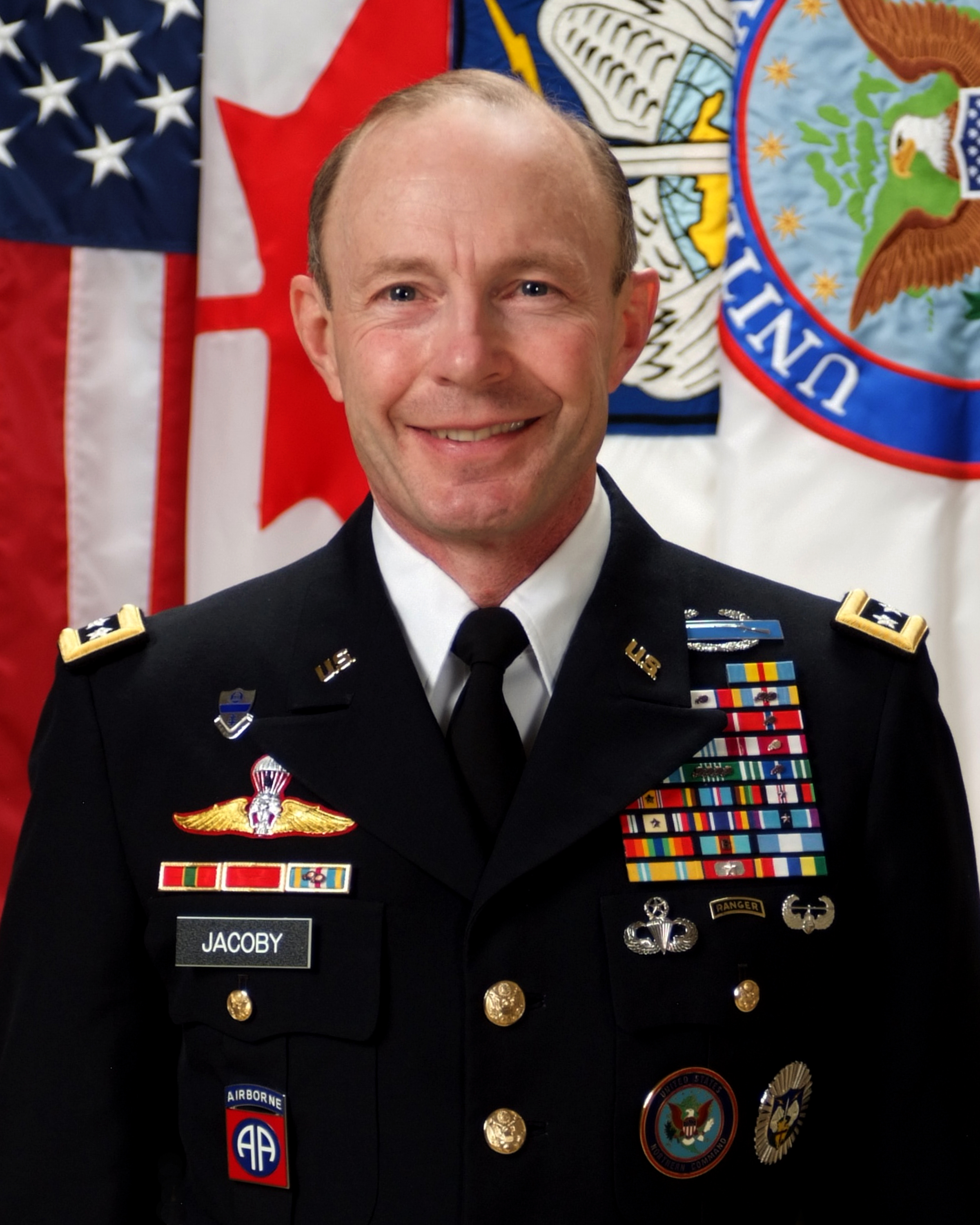 Charles H. Jacoby, Jr.